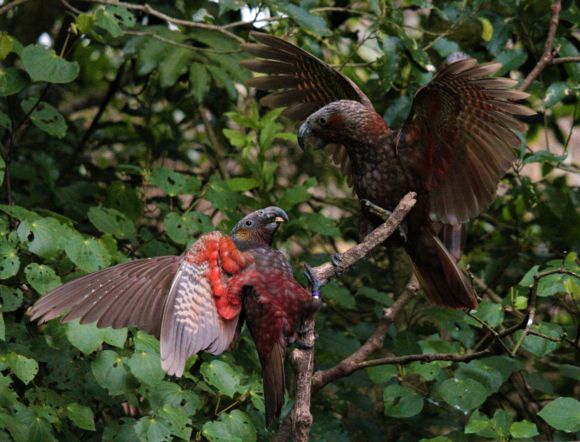 the bird that screams loudest and most persistenly gets to own the branch